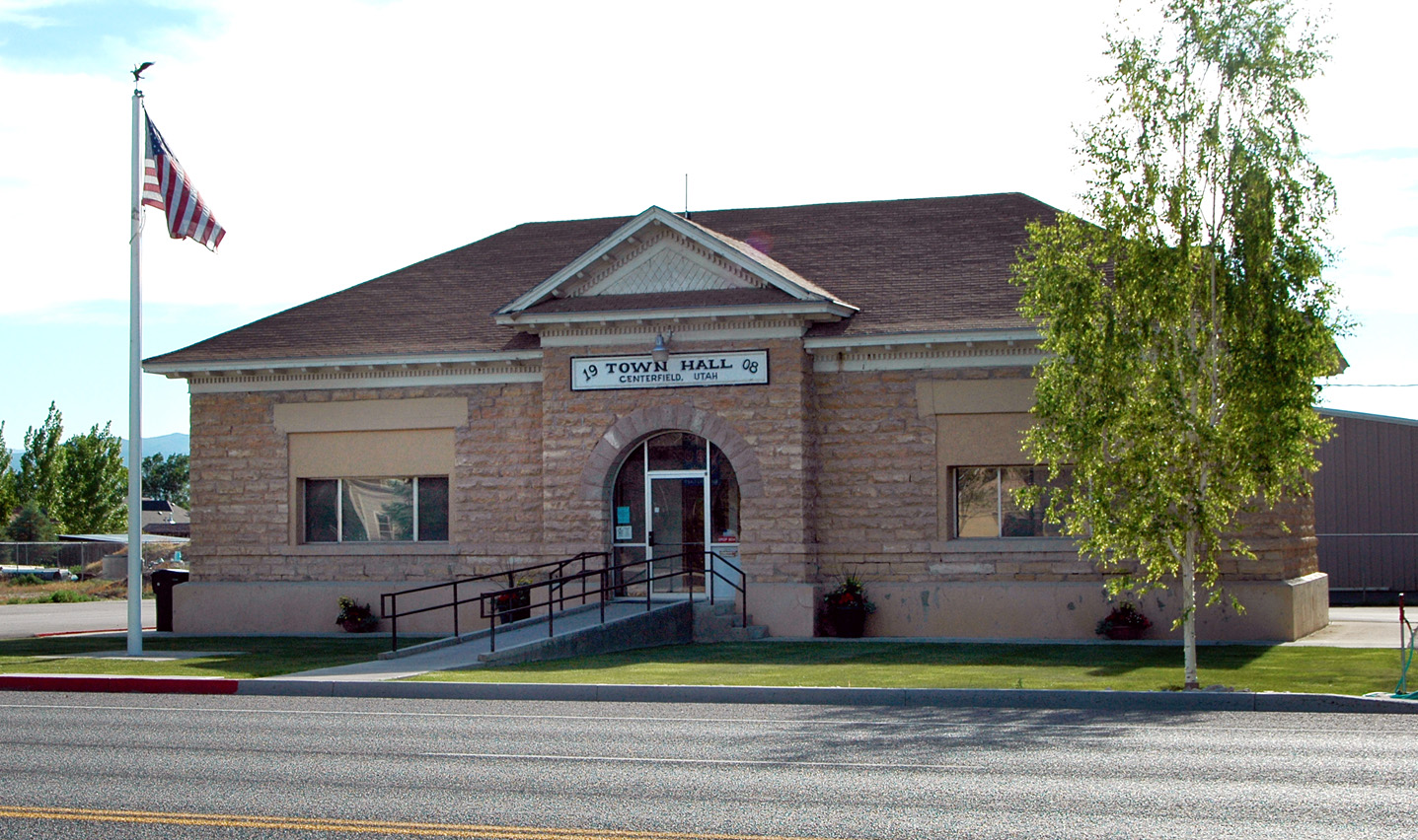 Town Hall in Centerfield, Utah -- June 2005, Nikon D70, Cory Maylett